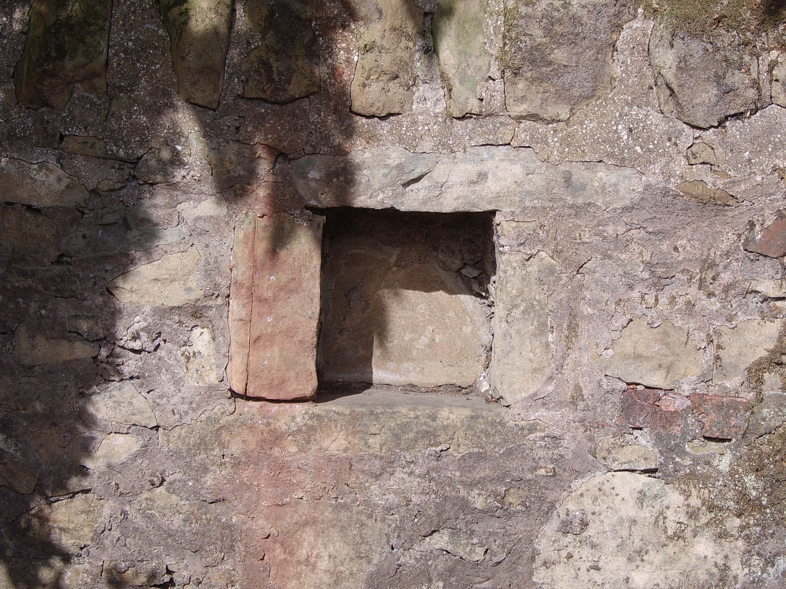 17th Century Charter Bole in Cupar, Fife